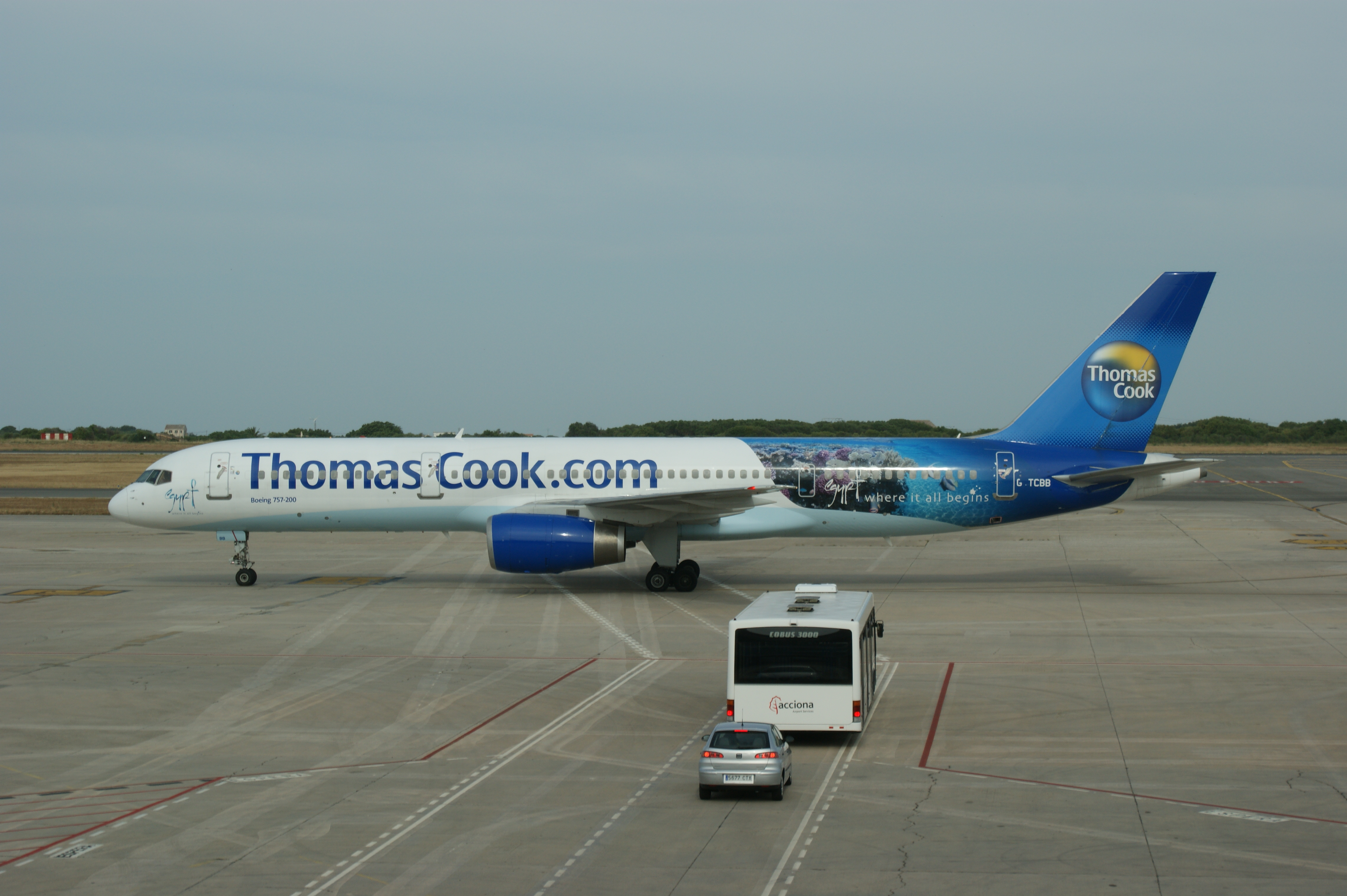 Boeing 757-200 of Thomas Cook at Menorca Airport, 05/12.